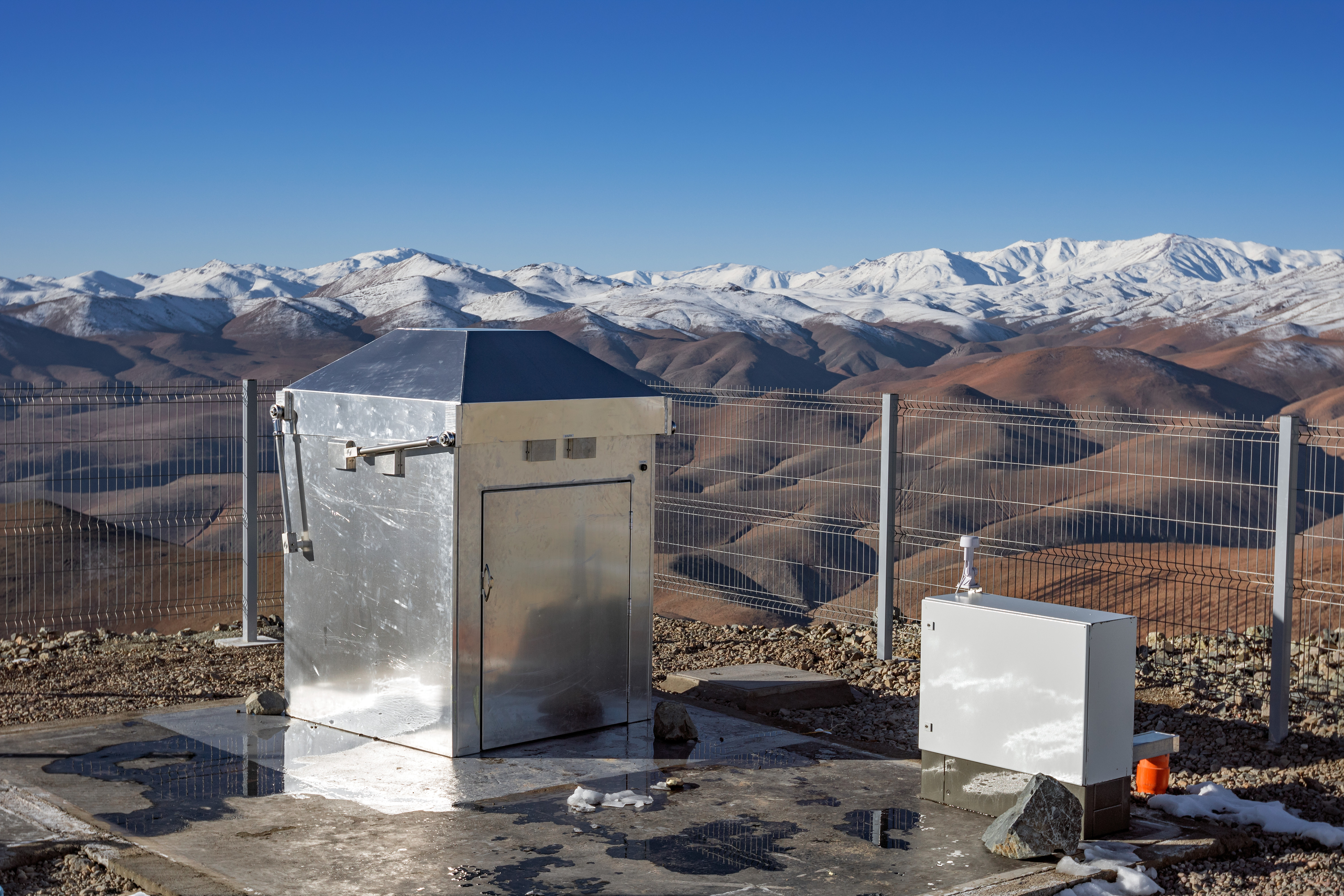 This picture shows the compact housing of MASCARA at its site in the spectacular snow-tipped mountain scenery of Chile.